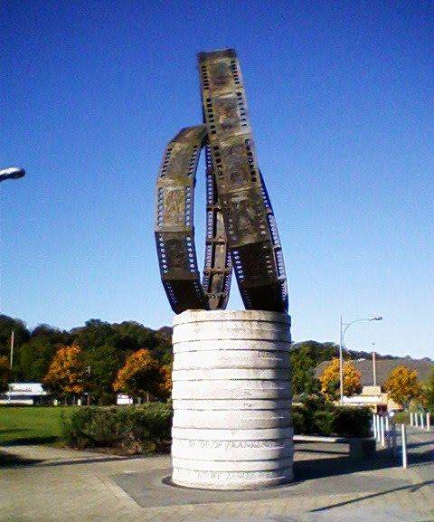 Sculpture commemorating Dudley-born director James Whale, outside Showcase Cinema.